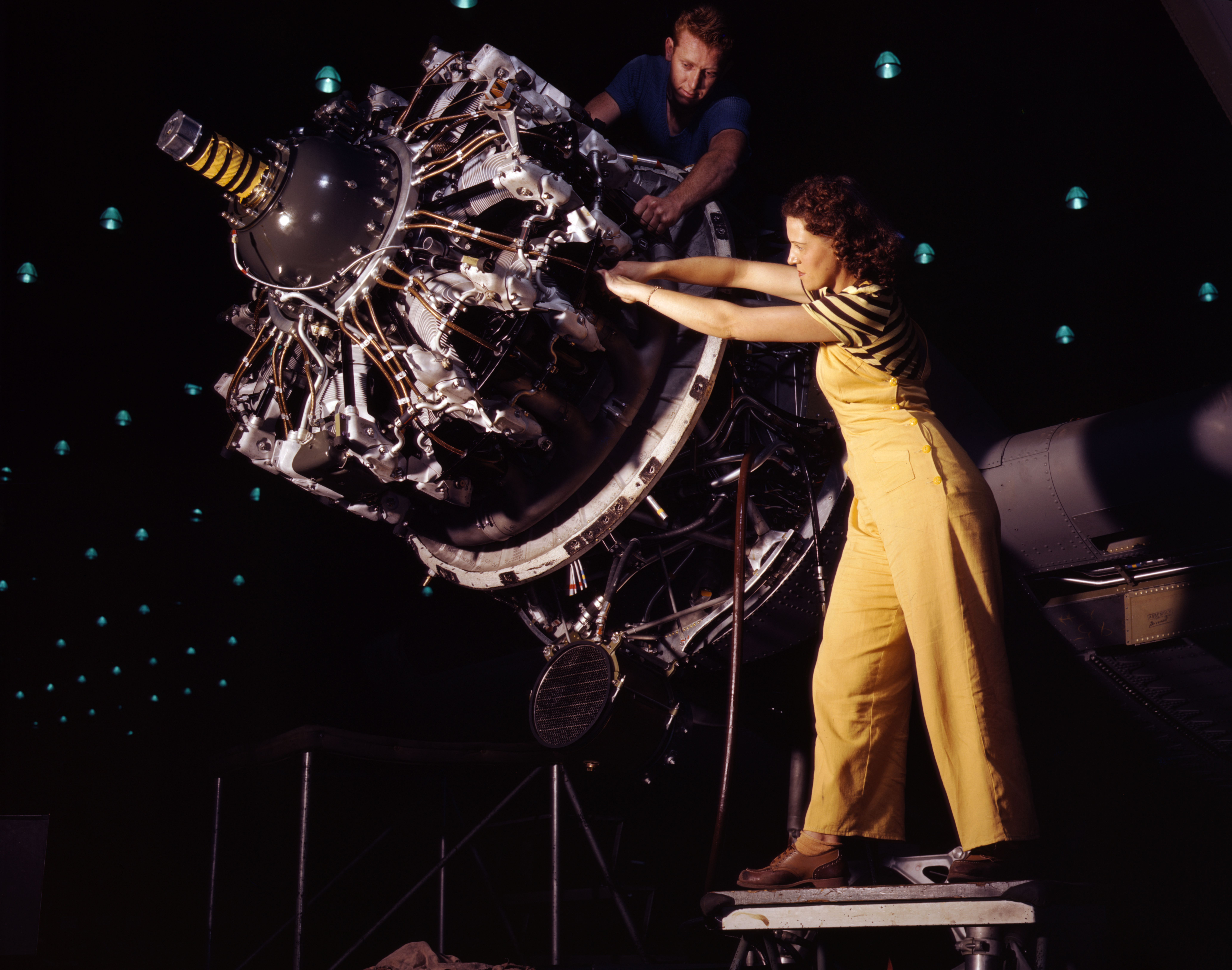 Assembly of Pratt & Whitney R-1830 engines on Douglas C-47 Skytrain aircraft. Training of a female worker at the Douglas Aircraft Company, Long Beach, California (USA), in October 1942.